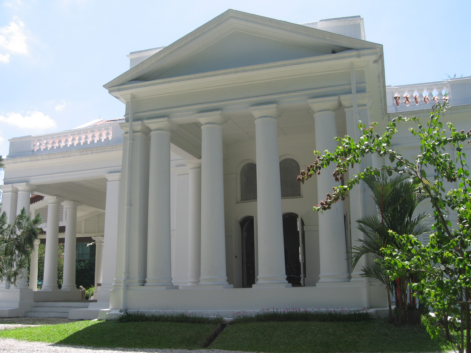 Armenian Church, Singapore.